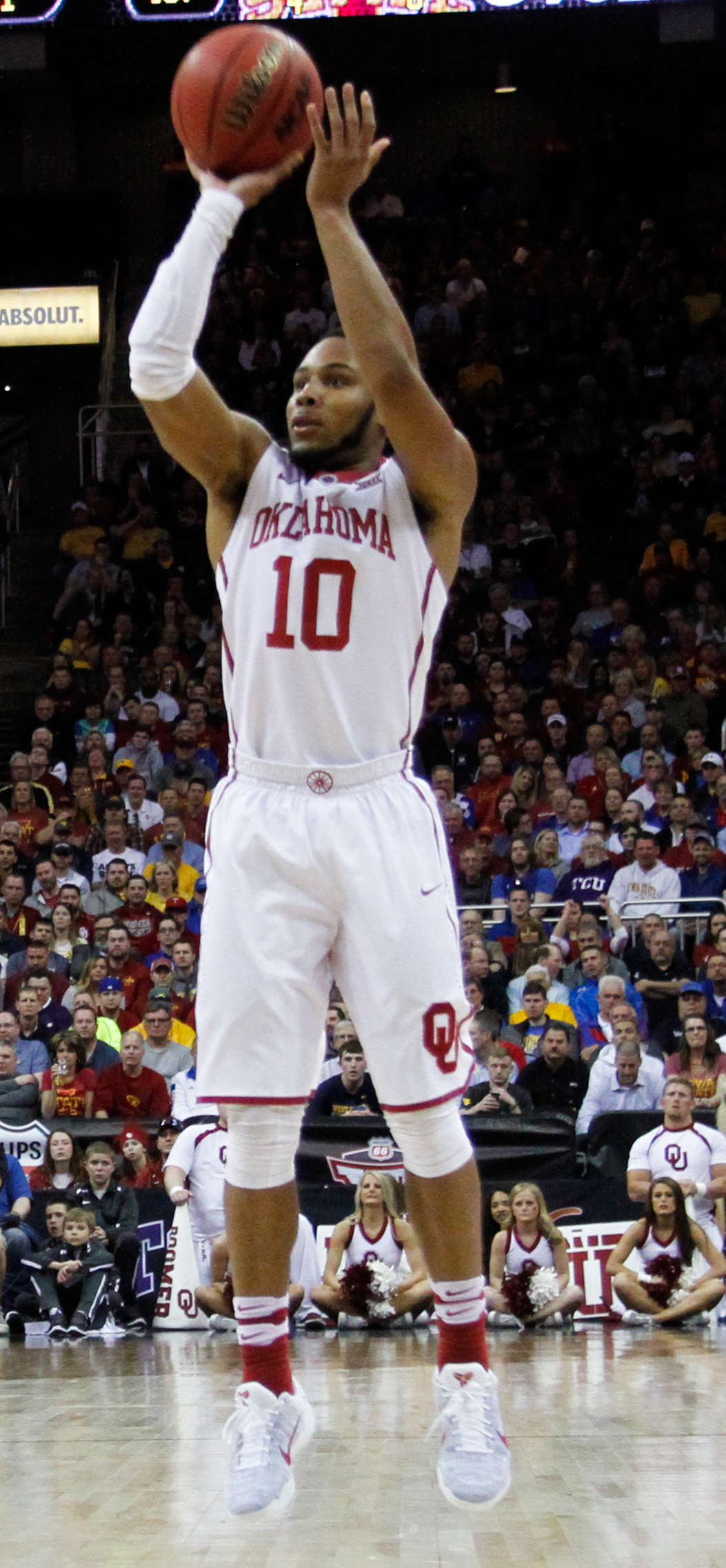 After being down at halftime, the Cyclones fought back, but fell short in their first game of the Big 12 Championship, losing to the Oklahoma Sooners 79-76.